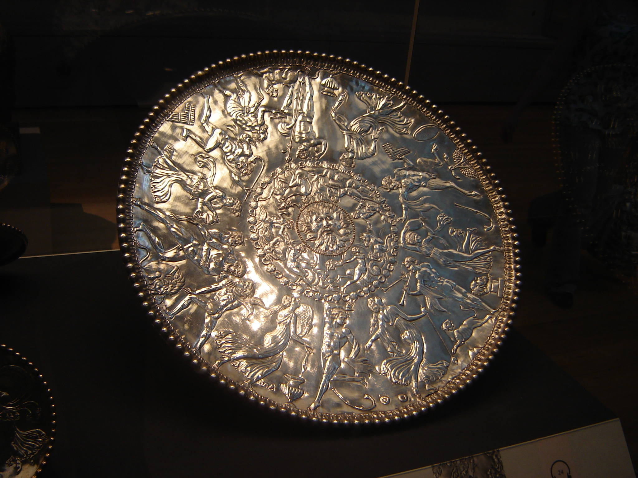 The great plate of Bacchus in the Mildenhall Treasure; taken in the British Museum.